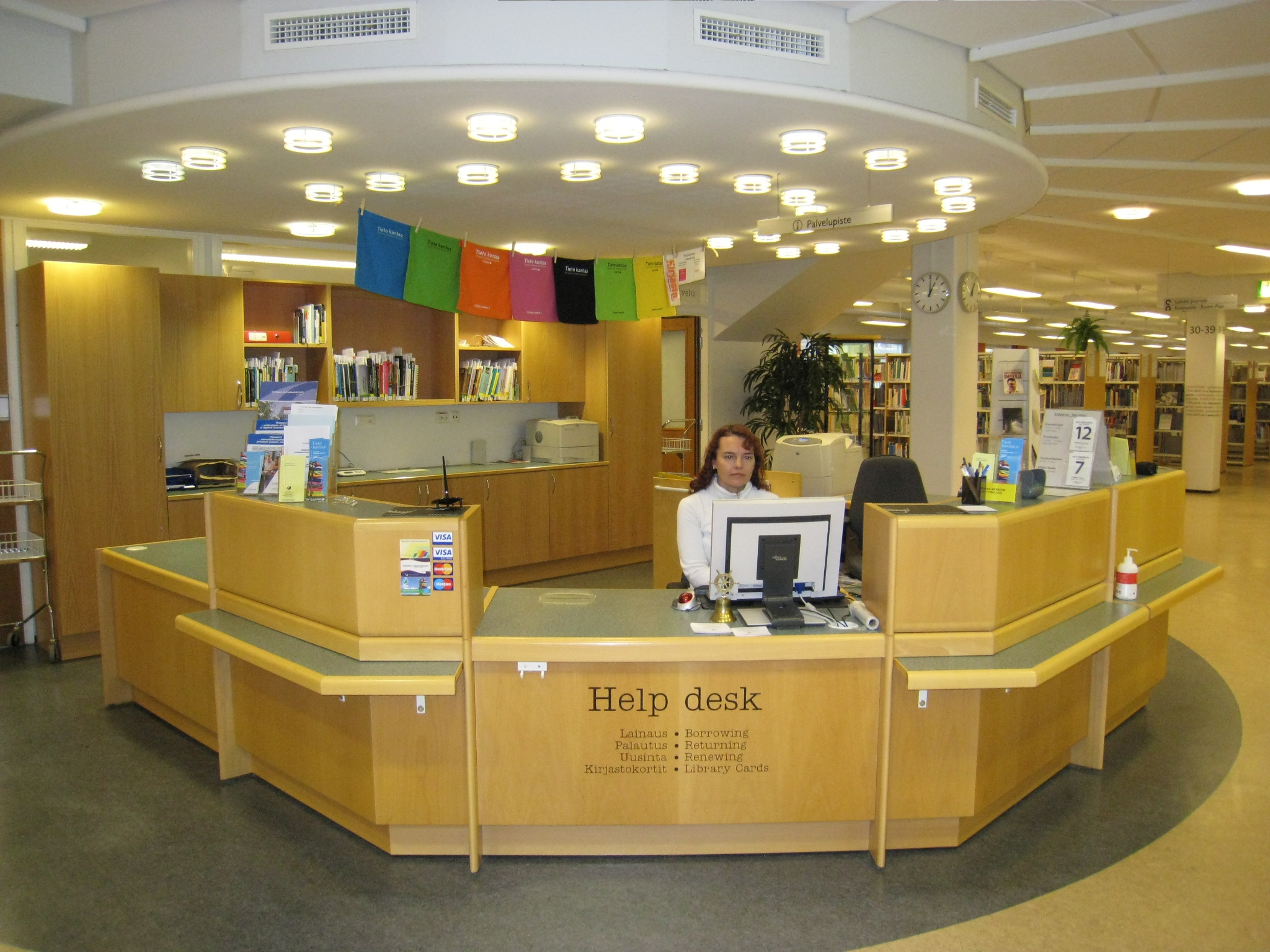 Seinäjoki University of Applied Sciences Library, Campus Library. Help desk.